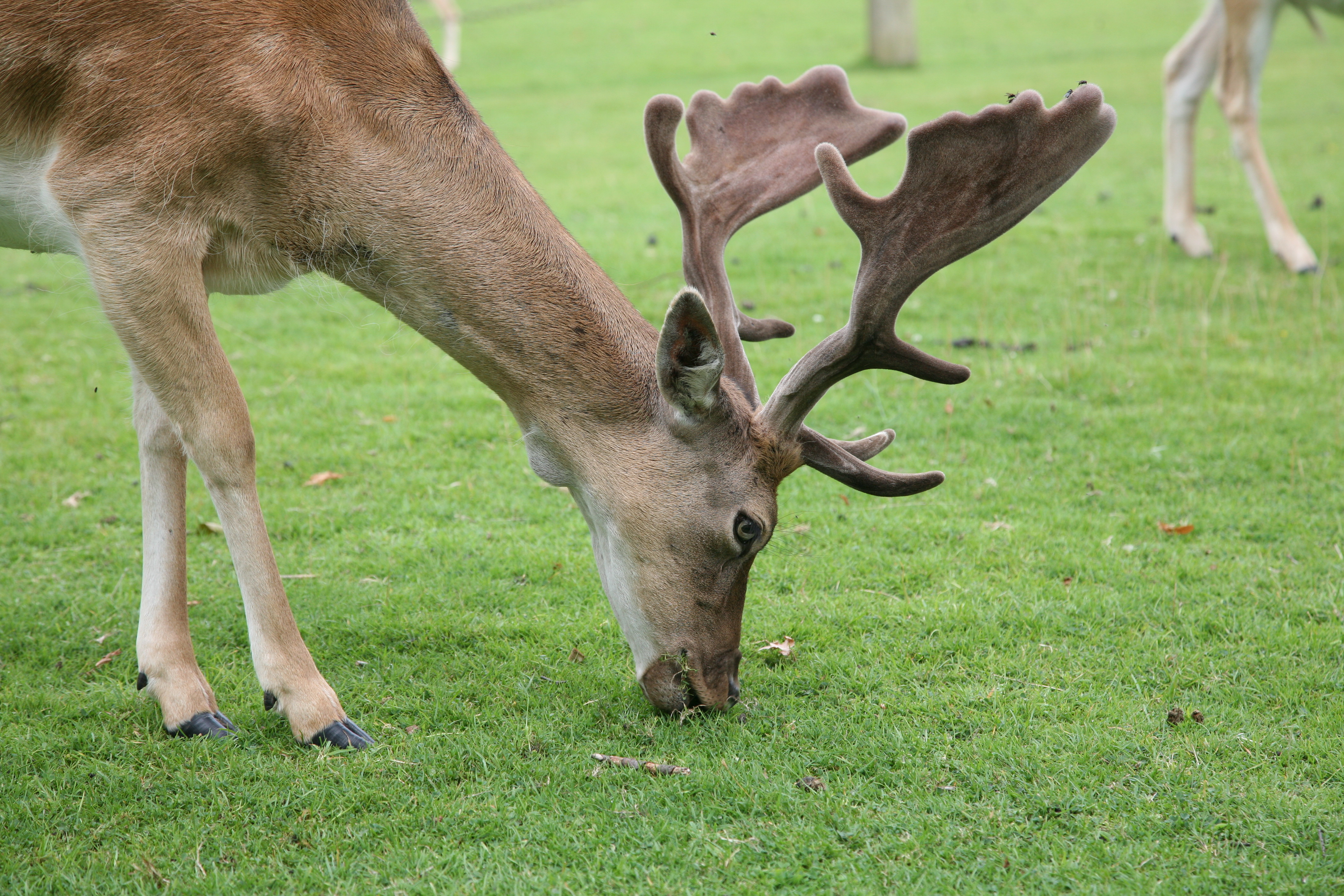 Fallow deer on the lawn at Dunham Massey Hall